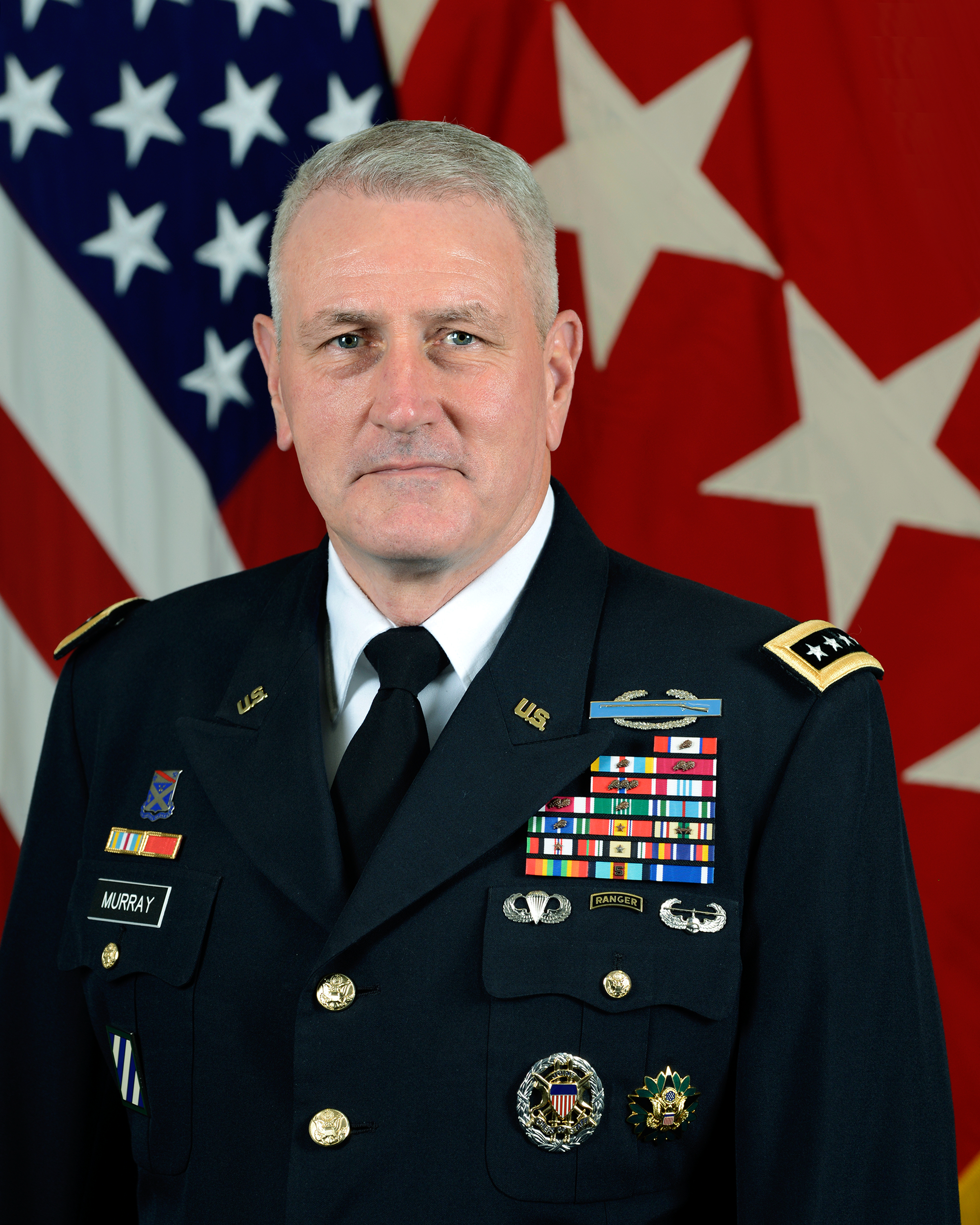 U.S. Army Gen. John M. Murray, Commanding General, Army Futures Command, Austin, Texas, poses for a command portrait in the Army portrait studio at the Pentagon in Arlington, Va., Sept. 4, 2018. (U.S. Army photo by Monica King)